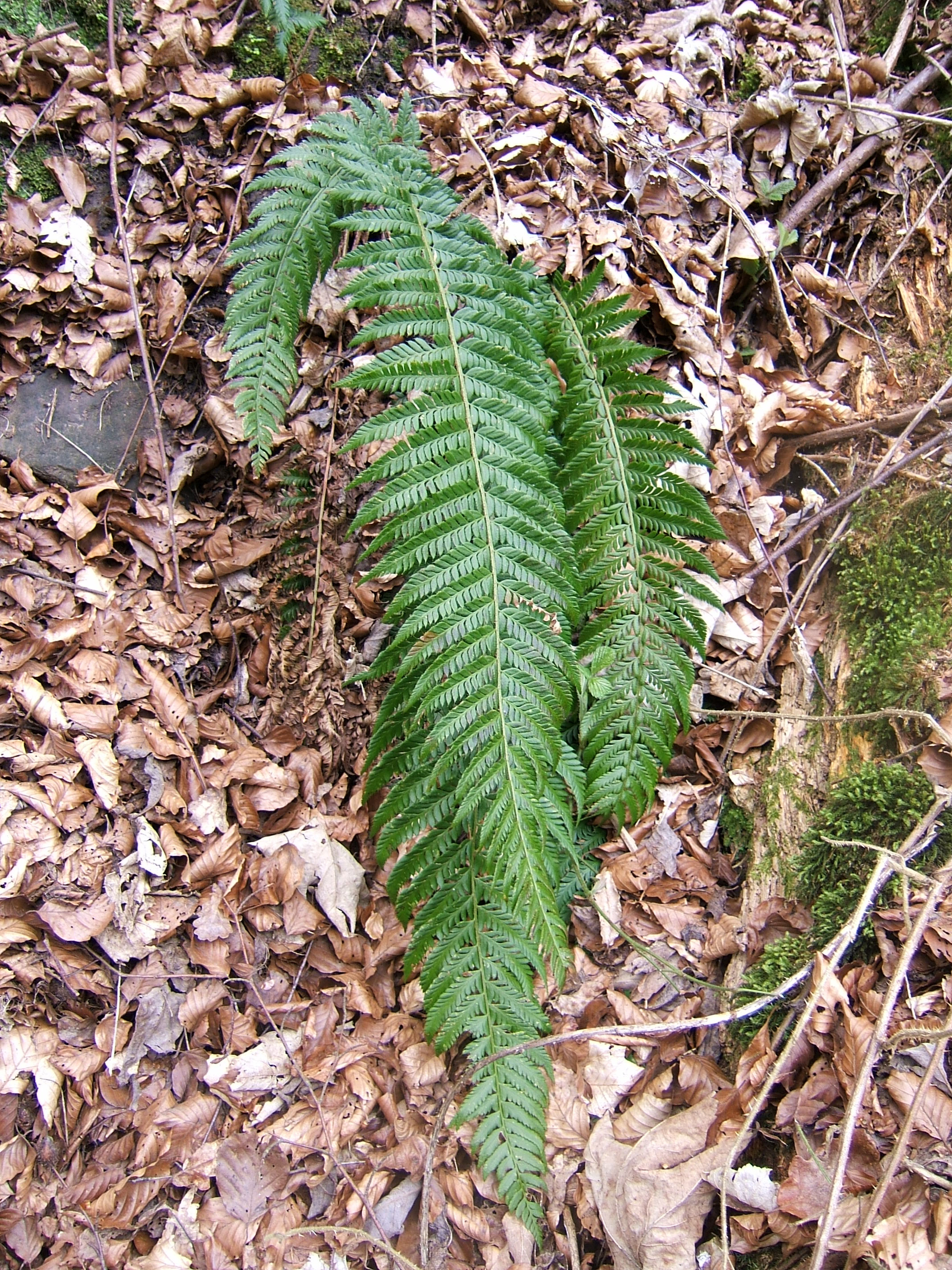 Polystichum aculeatum, Allenbanks, Northumberland, UK